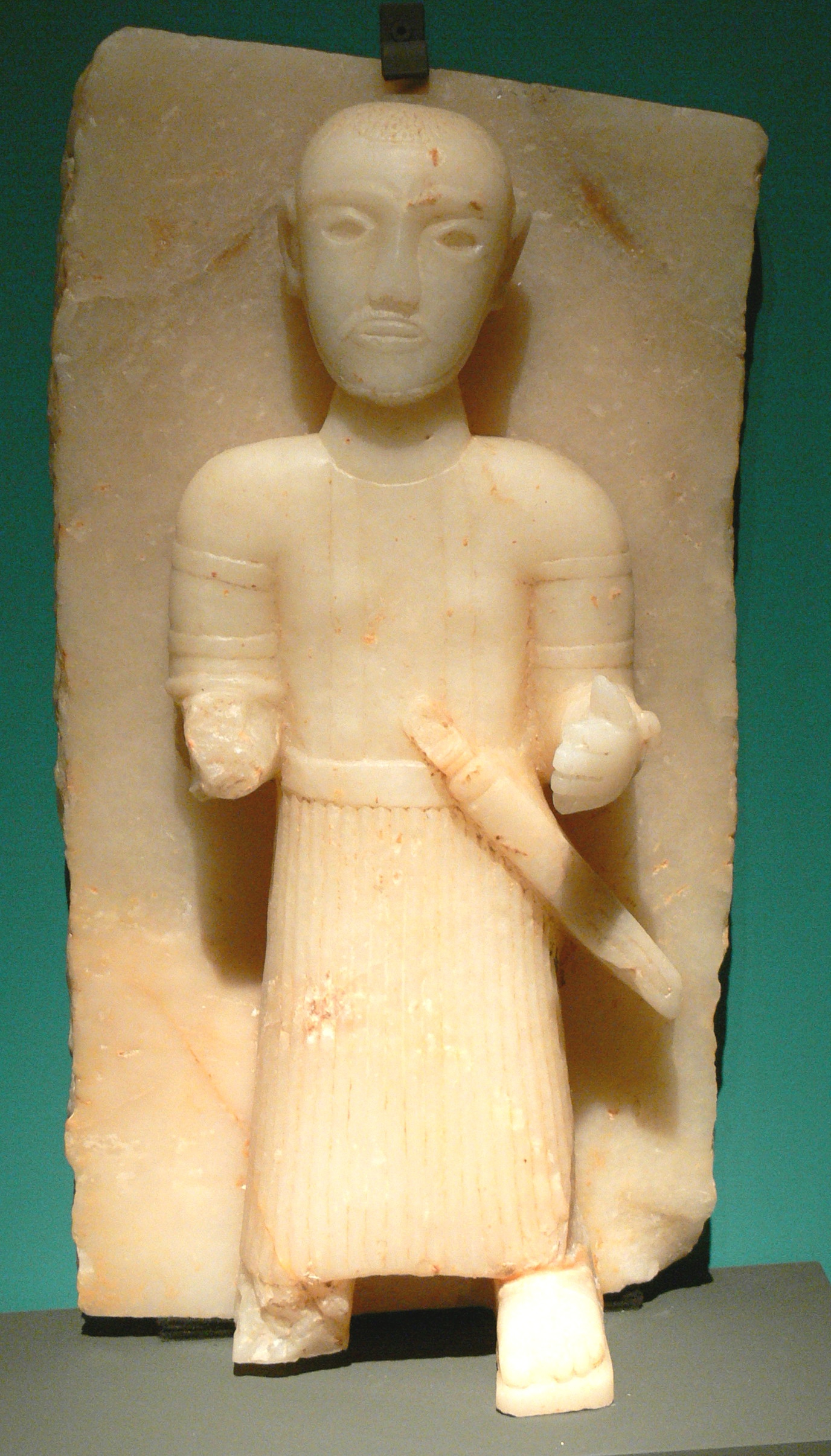 Pergamon Museum ( Berlin ). Exhibition "Roads of Arabia": Stele representing a man with a dagger ( 1st/3rd century AD ), calcite-alabaster, 57x30 cm, from Qaryat al-Faw ( Department of Archaeology Museum, King Saud University, Riyadh ).